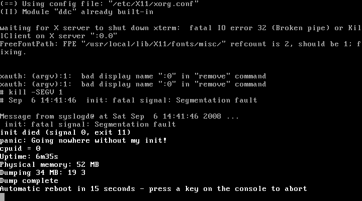 A kernel panic in FreeBSD 7.0 running under VirtualBox. The panic was caused by sending SIGSEGV to init, causing it to crash as if it encountered a segmentation fault. Since init is needed for all other processes to start, the kernel panics and a core dump is generated.